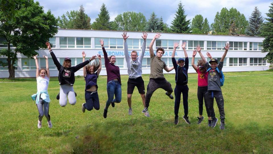 szs dsa presov